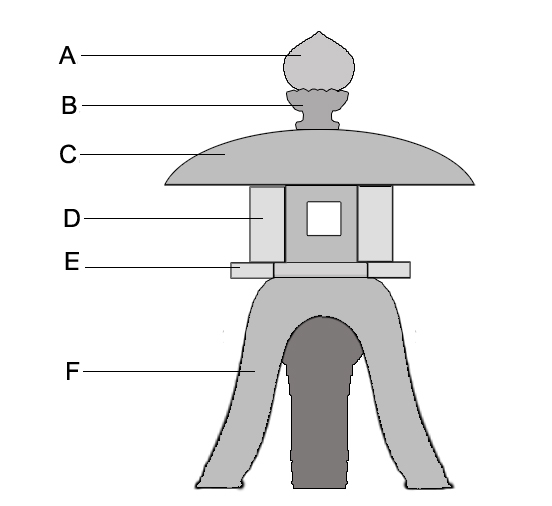 Illustration of the various components that make up a typical garden lamp. A. Hōju or hōshu (宝珠 lit. jewel), B. Ukebana (請花 lit. receiving flower), C. Kasa (笠 lit. umbrella), D. Hibukuro (火袋 lit. fire sack), E. Chūdai (中台, lit. central platform), F. Sao (竿 lit. post).